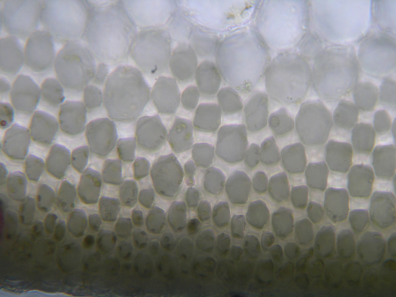 collenchyma tissue from celery ('Apium graveolens' L.) stem